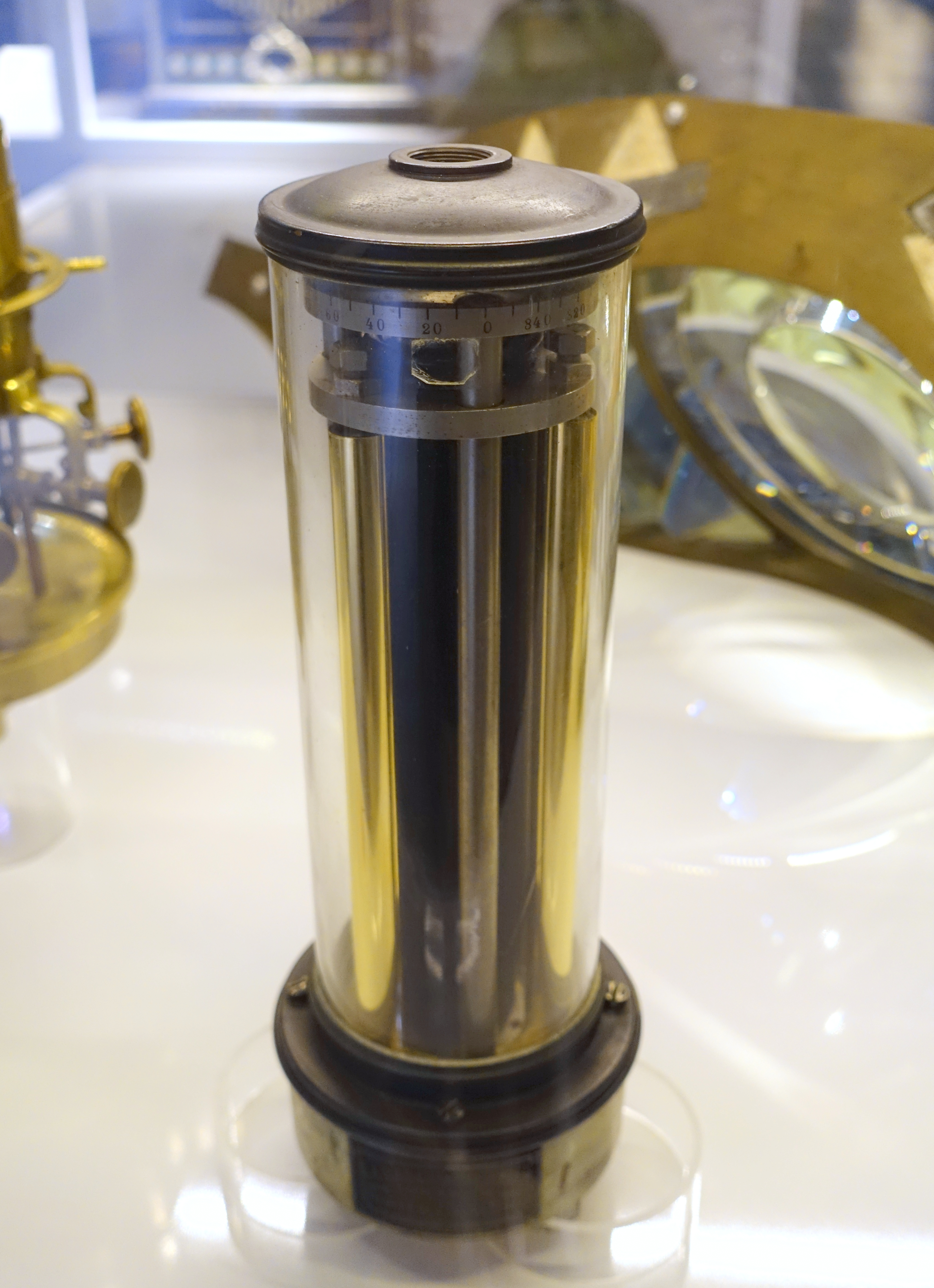 Exhibit in the Tekniska museet, Stockholm, Sweden. This work is old enough so that it is in the public domain.